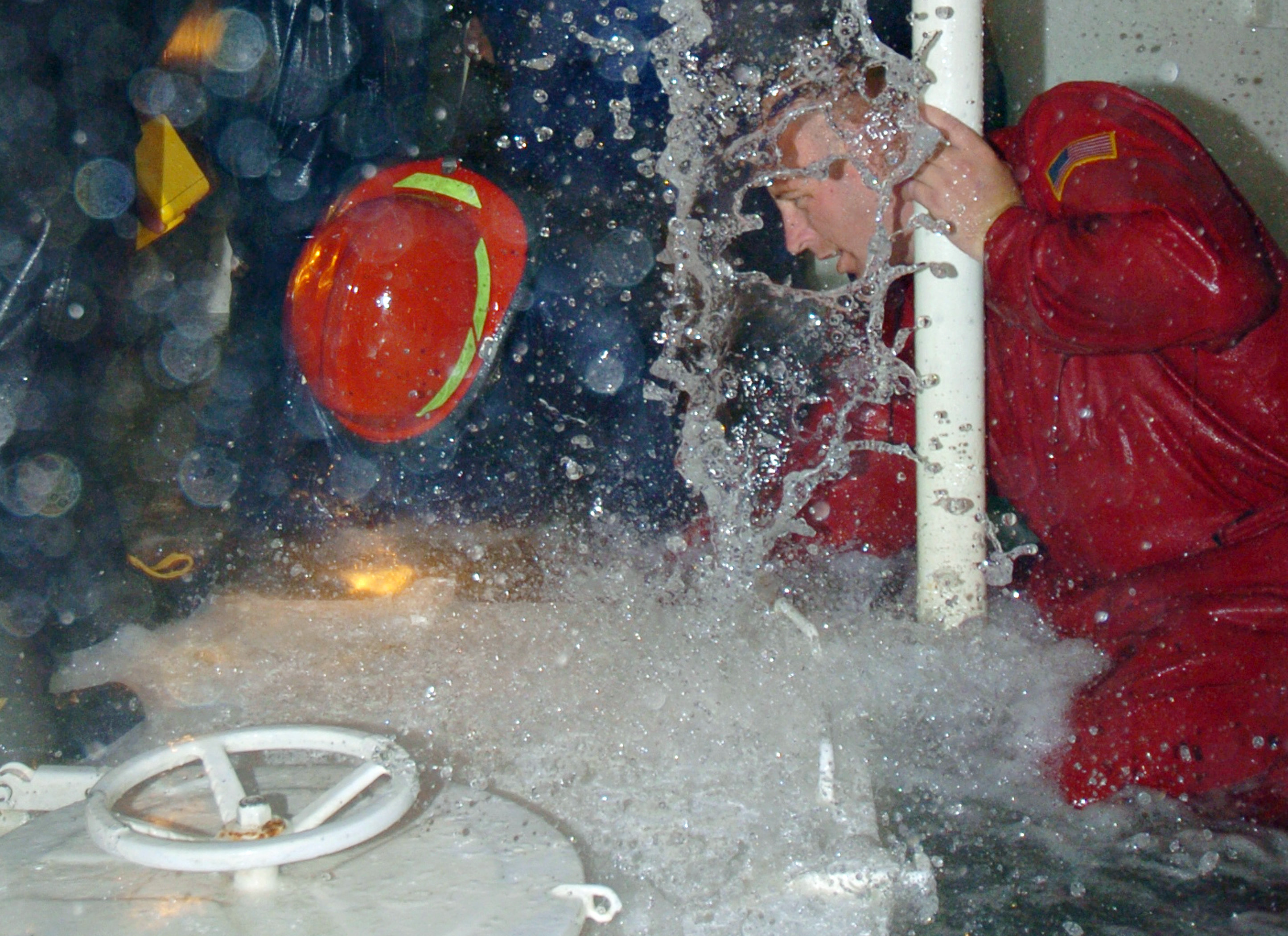 San Diego, Calif. (June 21, 2005) - Damage Controlman 1st Class Schoen Riley from Sams Valley, Ore., trains Japan Maritime Self Defense Force (JMSDF) Sailors on dewatering techniques during the flooding portion of damage control training. Naval Station San Diego is hosting three JMSDF ships and is providing their Sailors with specialized training during their visit. U.S. Navy photo by Journalist Seaman S.C. Irwin (RELEASED)